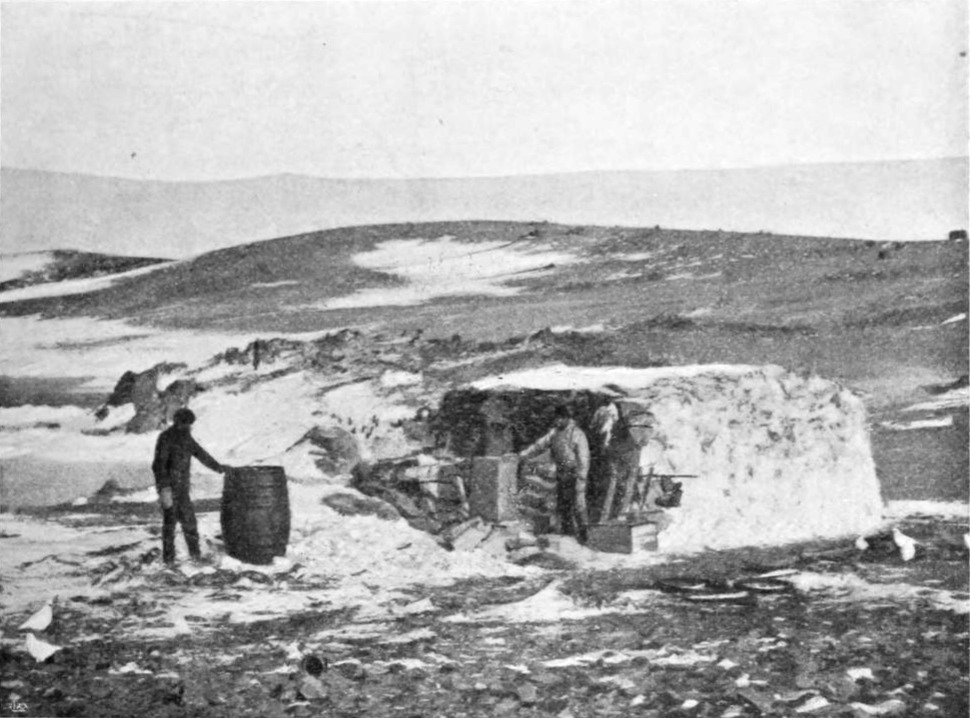 Stone hut of the swedish Antarctic Expedition at Hope Bay, Antarctic Peninsula, 1903